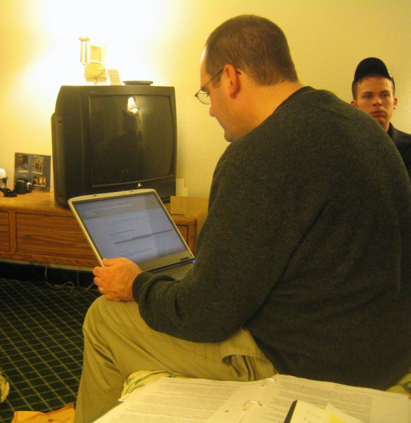 Author: Carl Brooker Location: Cincinnati, OH